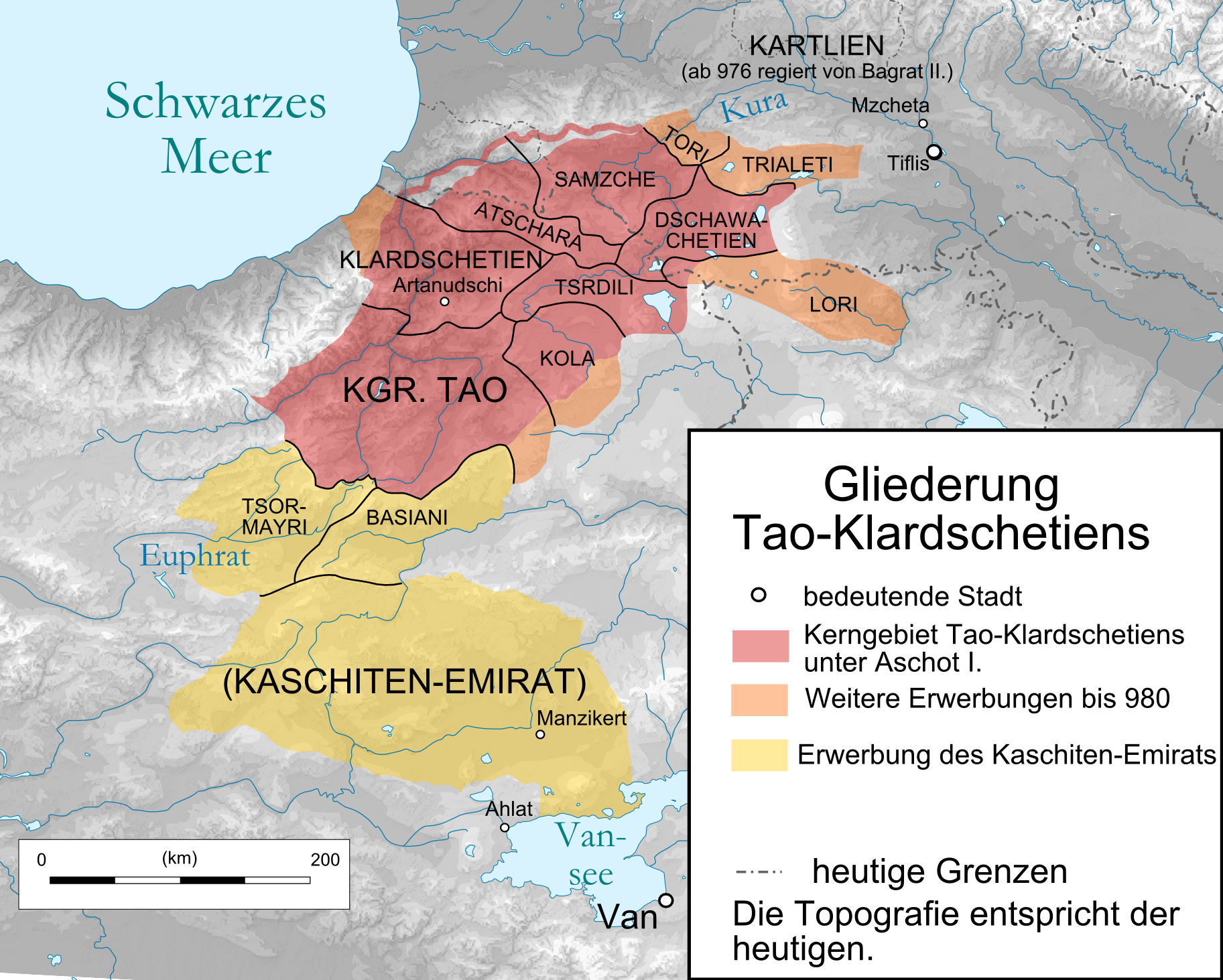 Map of Tao-Klarjeti